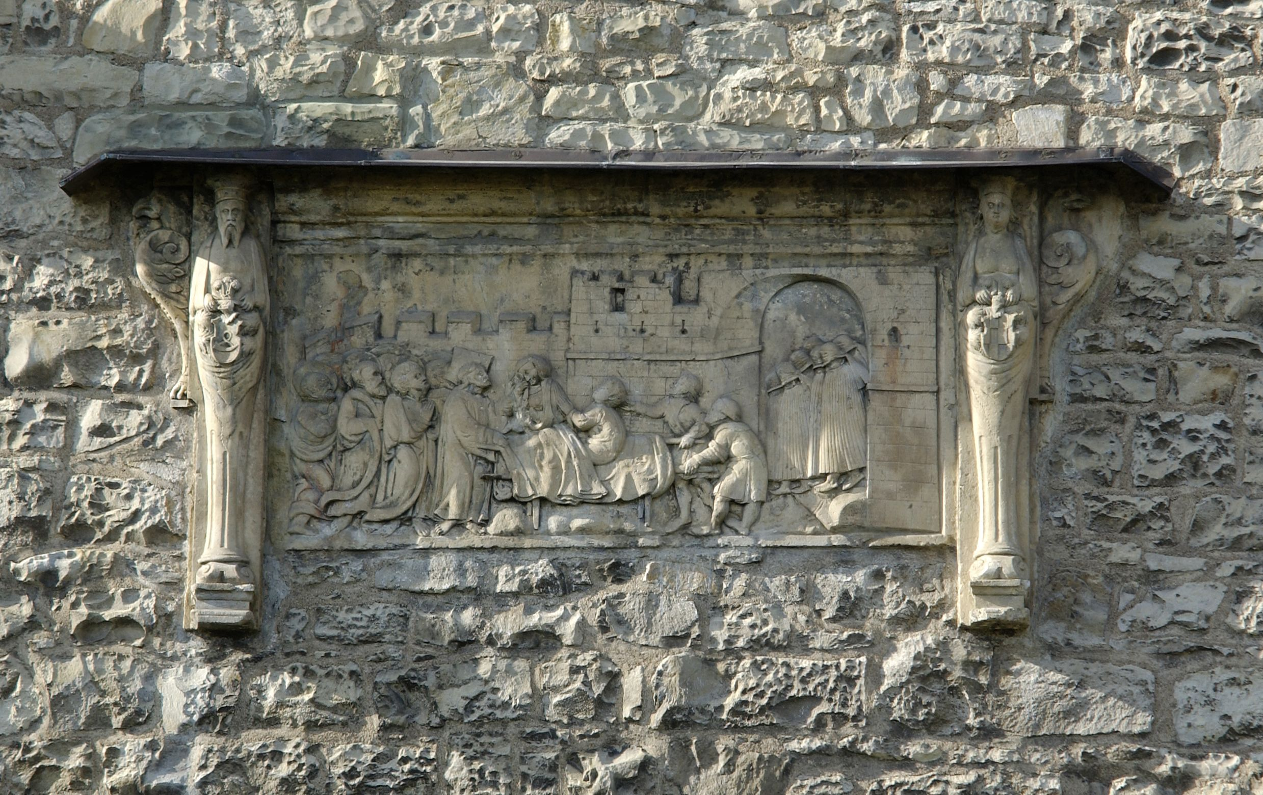 Relief Resurrection of Lazarus on the tower of the church of the Mother of God from 16th century from Vincenc Strašryba.